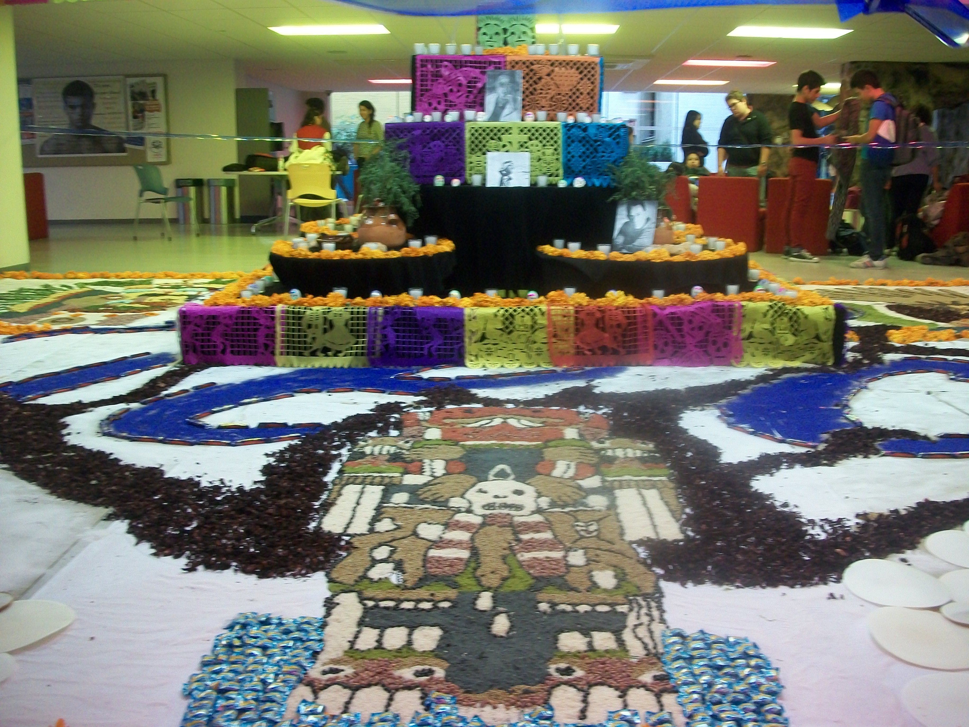 The offerin of Prepa Tec CCM